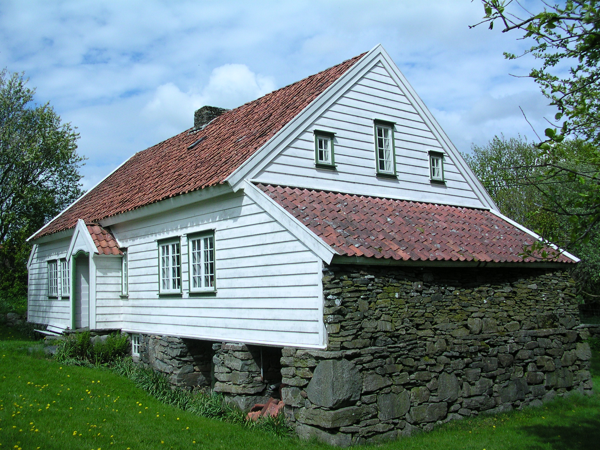 Garborgheimen, the place of birth and childhood of writer Arne Garborg. The house is also a typical old house for this part of Norway, Jæren in Rogaland. Built in 1848 by Eivind Aadneson Garborg and his wife Ane Oline; the parents of Arne Garborg, a museum today.